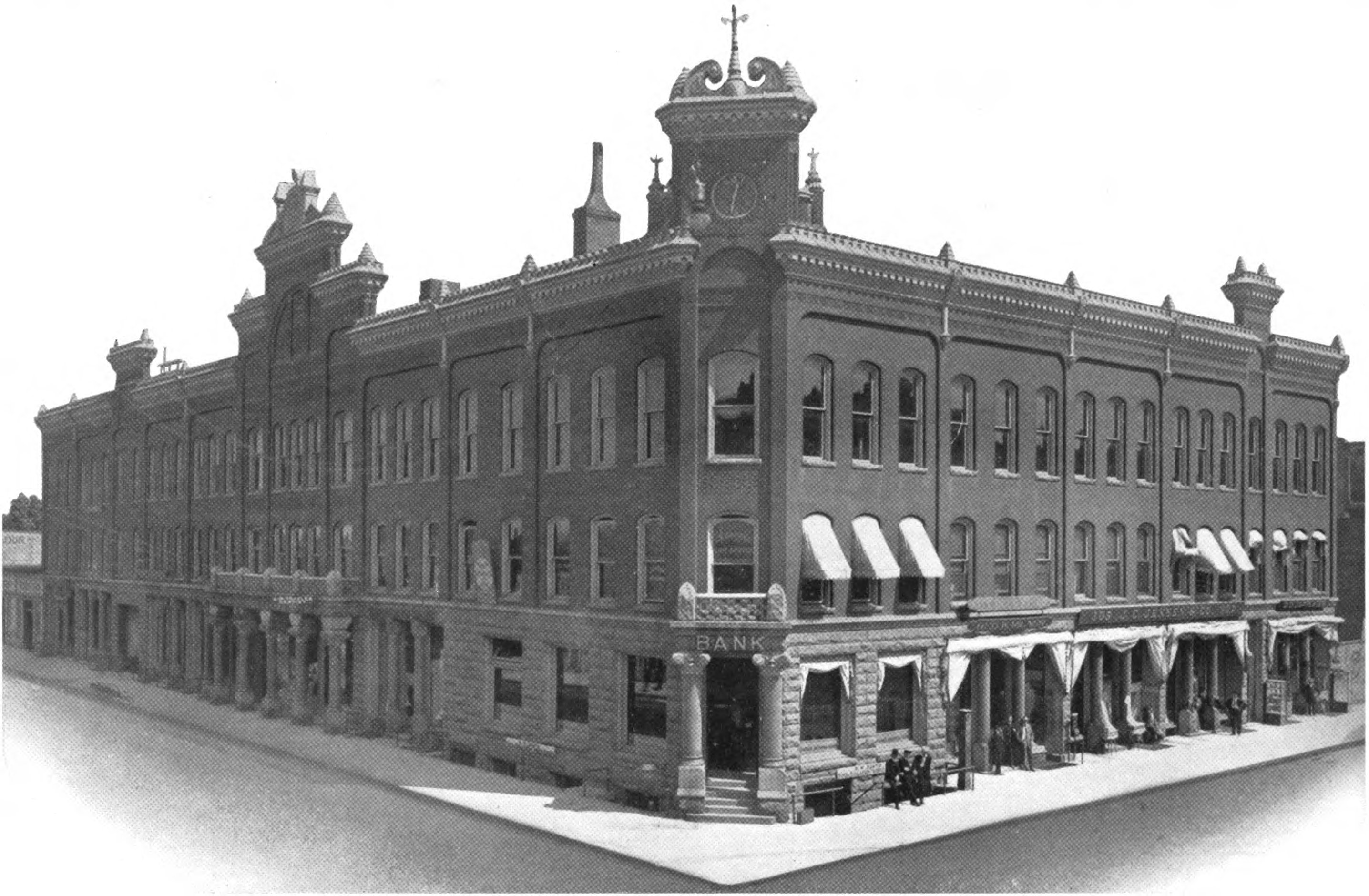 The Nisbett Building in Big Rapids, Michigan, circa 1906. It is a Michigan State Historic Site and is listed on the NRHP.